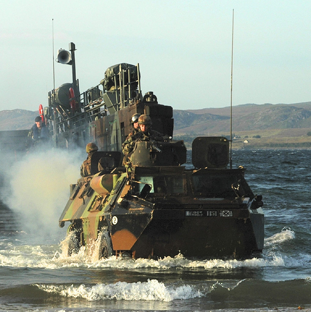 A French Marine VAB takes the beach during a Non-combatant Evacuation Operation (NEO) exercise held on the western coast of Scotland. The VAB (Véhicule de l'Avant Blindé) is a front-line tactical armoured vehicle that can be fitted with a selection of weapon systems including a 12.7 mm or 25 mm Dragar turret, an anti-tank missile launcher turret or a variety of mortar systems. The event is part of Exercise Northern Light 03, which includes military personnel from 12 NATO nations, and is held every four years.